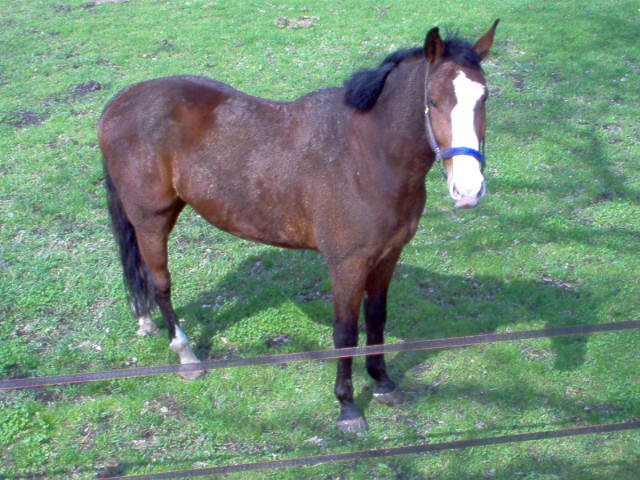 Horse, April 2005.